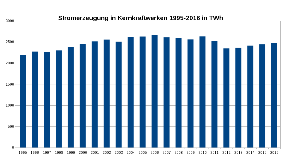 Production of nuclear power plants 1995-2016